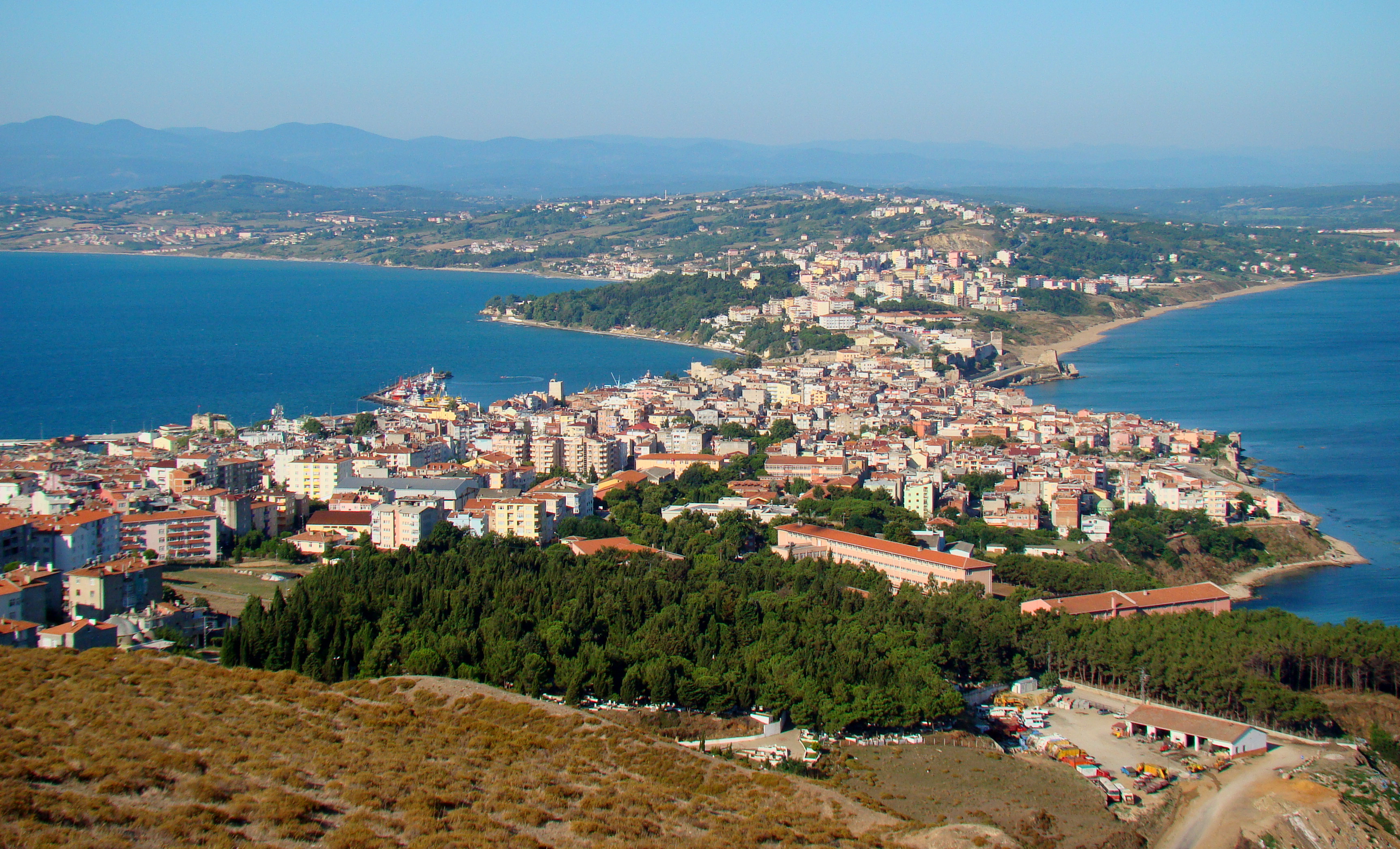 The town of Sinop as seen early in the morning from below the military installation on the peninsula just east of the town centre. The forest in the foreground contains a cemetery. The old town, where the peninsula is at its narrowest, used to be surrounded by a tall city wall, of which many parts remain standing. Some towers belonging to the city wall are clearly visible in this photo. Beyond the towers on the right side of the photo is the town beach, a popular place for people to spend the day swimming and relaxing.